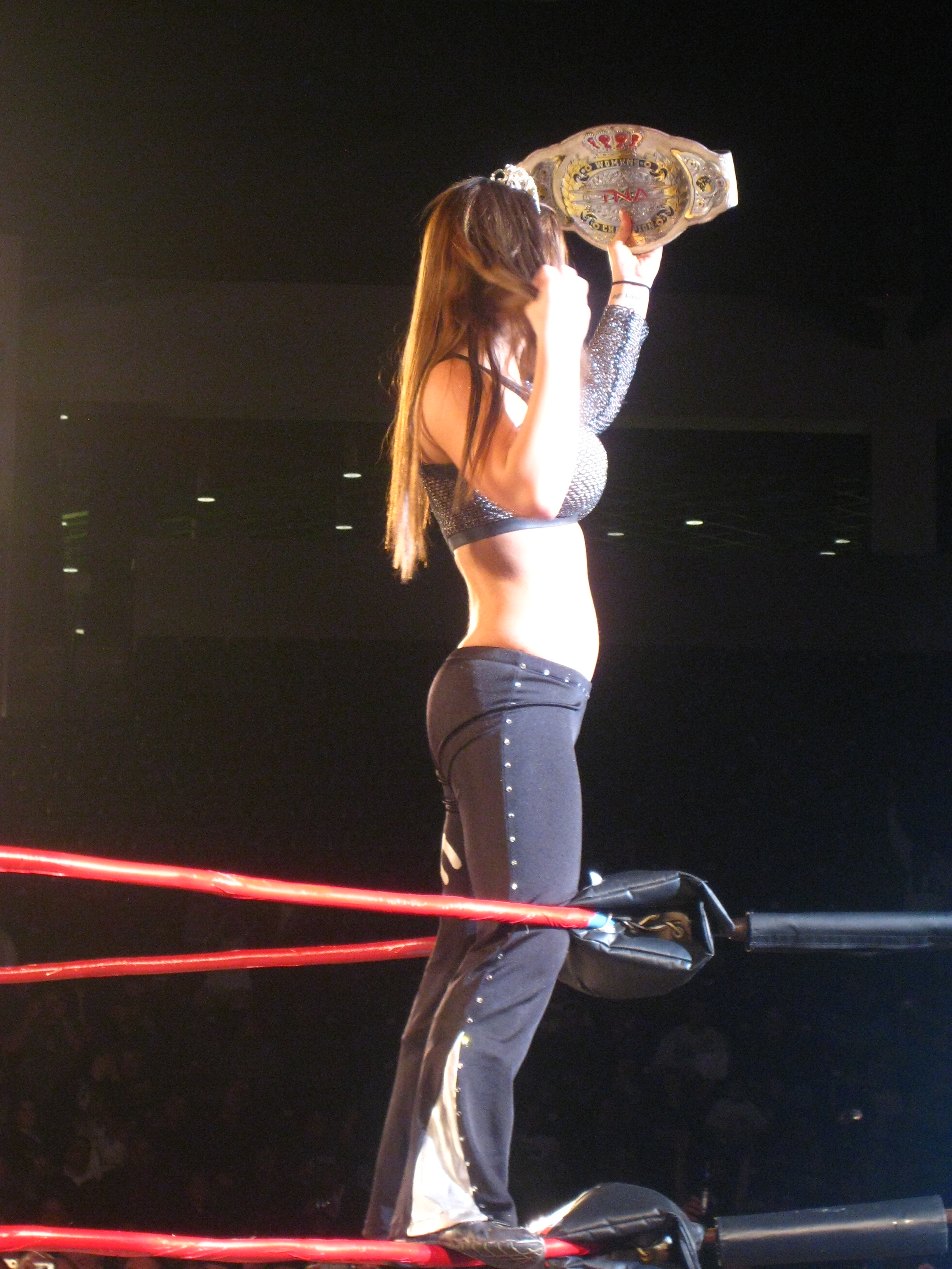 A TNA Live! Event at the ShoWare Center in Kent, WA. No PRO cameras were allowed so I had to put my Canon PowerShot SD1100 IS to work!